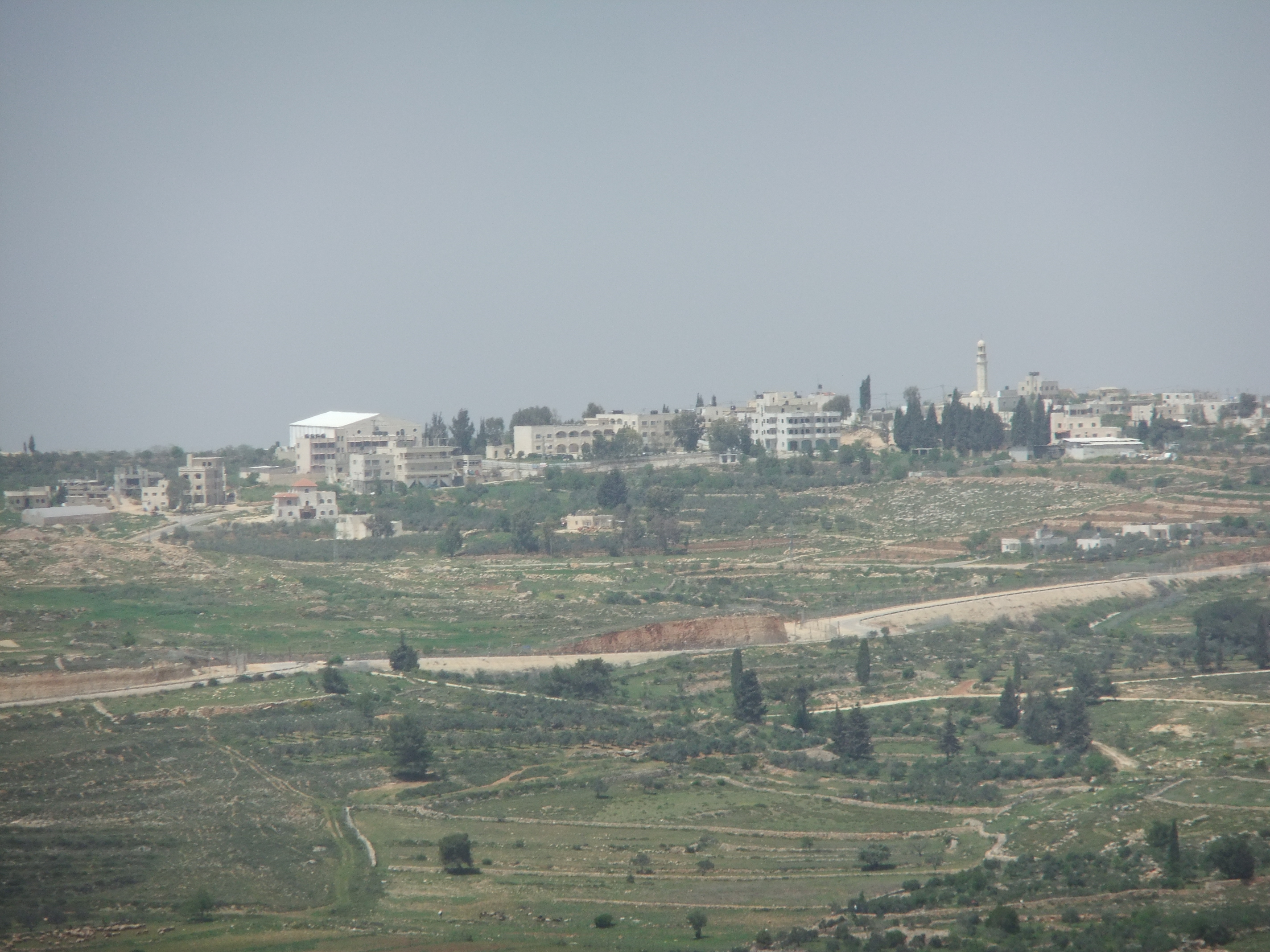 Beit Ijza from Tomb of Samuel